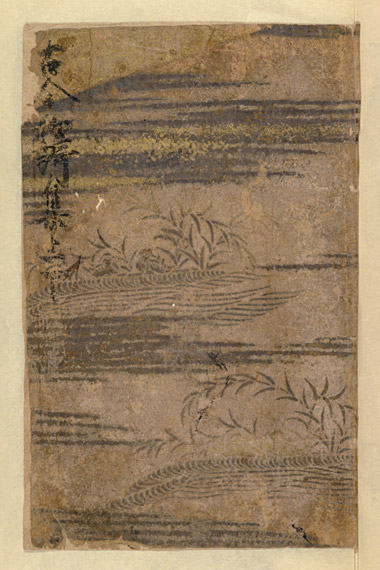 Collected Japanese Poems of Ancient and Modern Times (古今和歌集, Kokin Wakashū). Located at Reizei-ke Shiguretei Bunko (冷泉家時雨亭文庫), Kyoto. The item has been designated as National Treasure of Japan in the category writings.